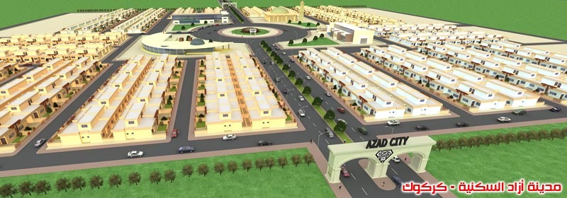 Azad City in Kirkuk One Azad Al-Shakarchi projects and includes 4,600 housing units